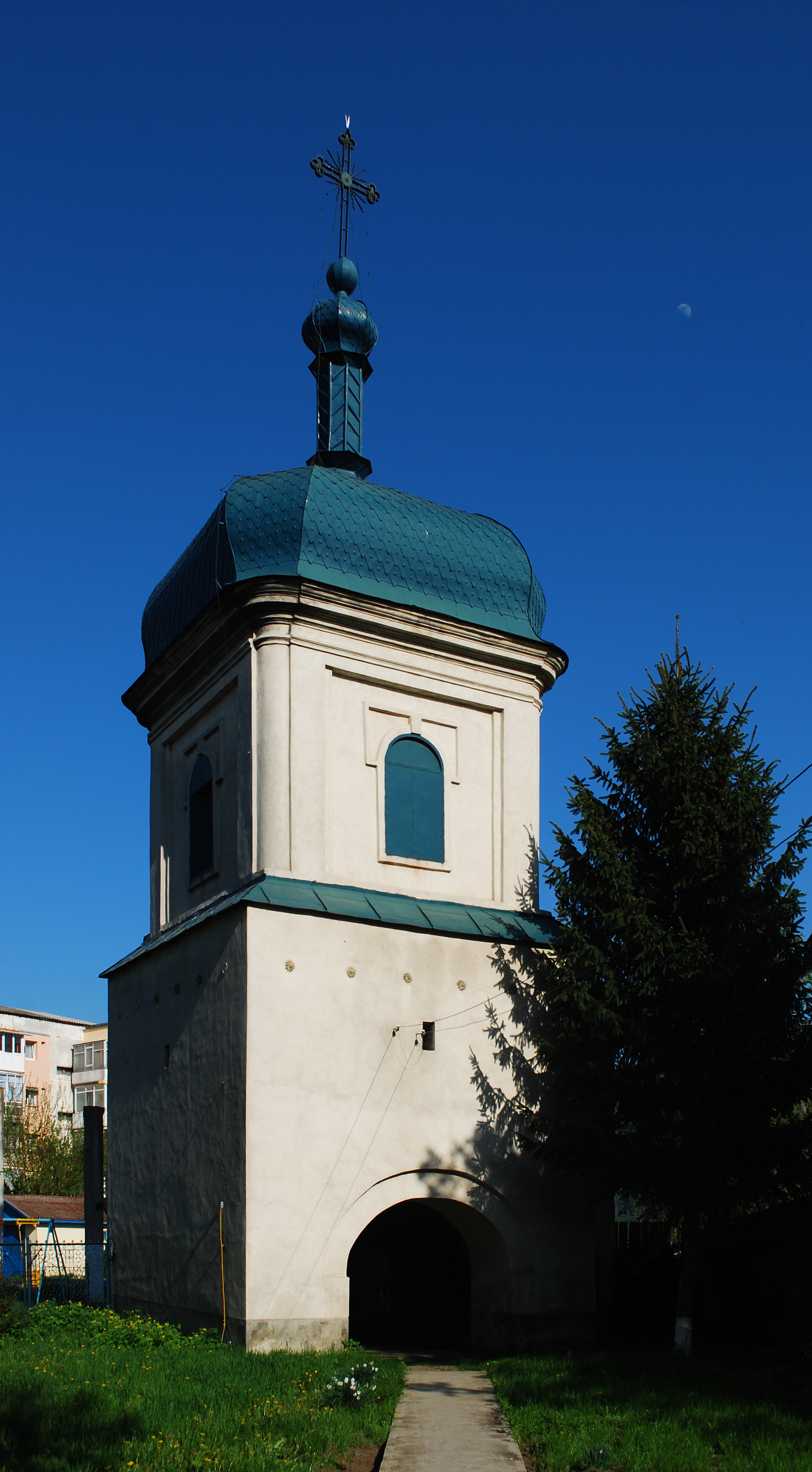 Belfry at St. Nicholas' church in Roman, Neamț County, RomaniaRomână: Turnul clopotniță al bisericii negustorilor brașoveni (Sf. Nicolae) din Roman, județul Neamț, România 02